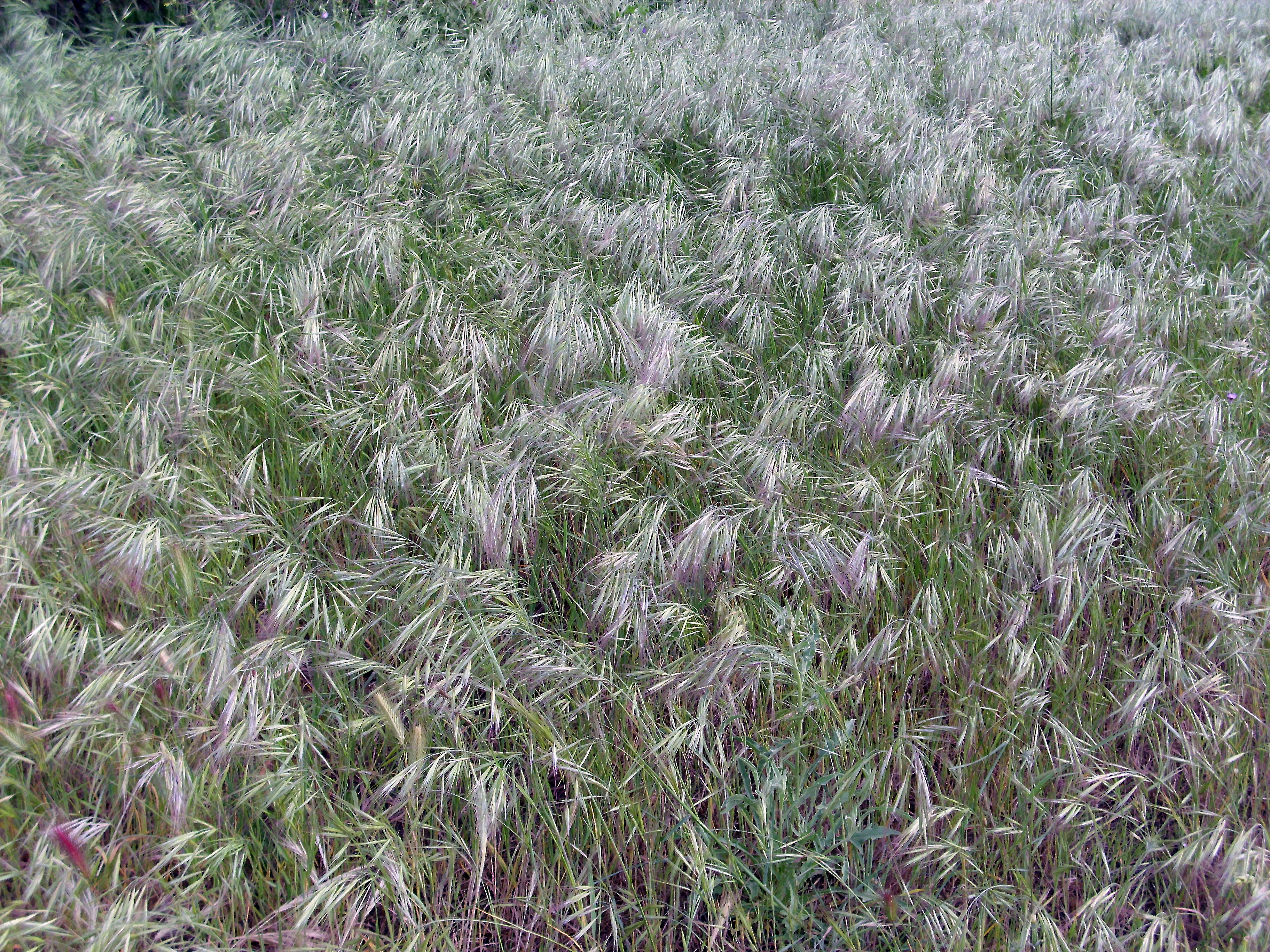 Bromus madritensis habit Campo de Calatrava, Spain